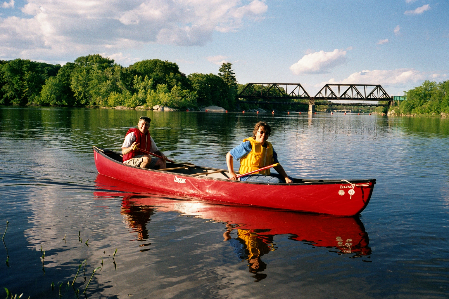 Paddling the Androscoggin River, Maine, 2001. Free Black Bridge in background. Film scan.